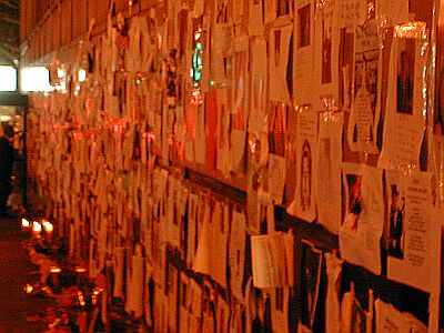 Long line of missing person flyers outside NYU's Greenberg Hall, one of many such impromptu displays throughout Manhattan after 9-11. New York City, September 18. 2001.